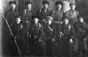 Finnish Red Ruards. Crew of Eino Rahja's armoured train in Tampere.